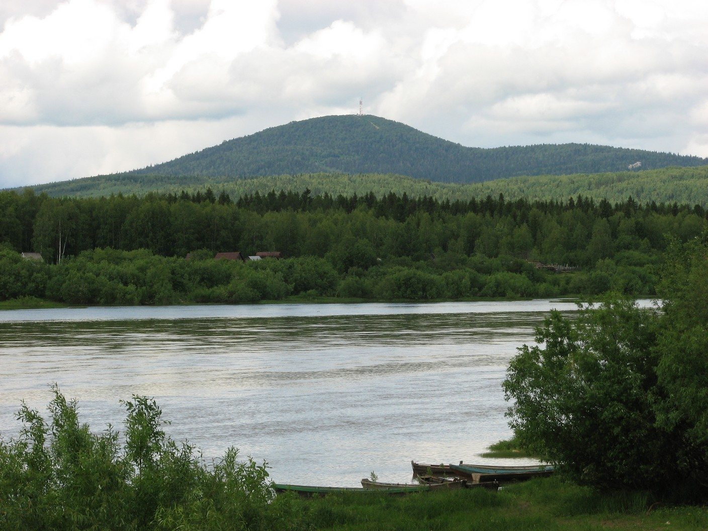 вид на г. Полюдов камень с берега This image is related to the protected area of Russia number 5910202